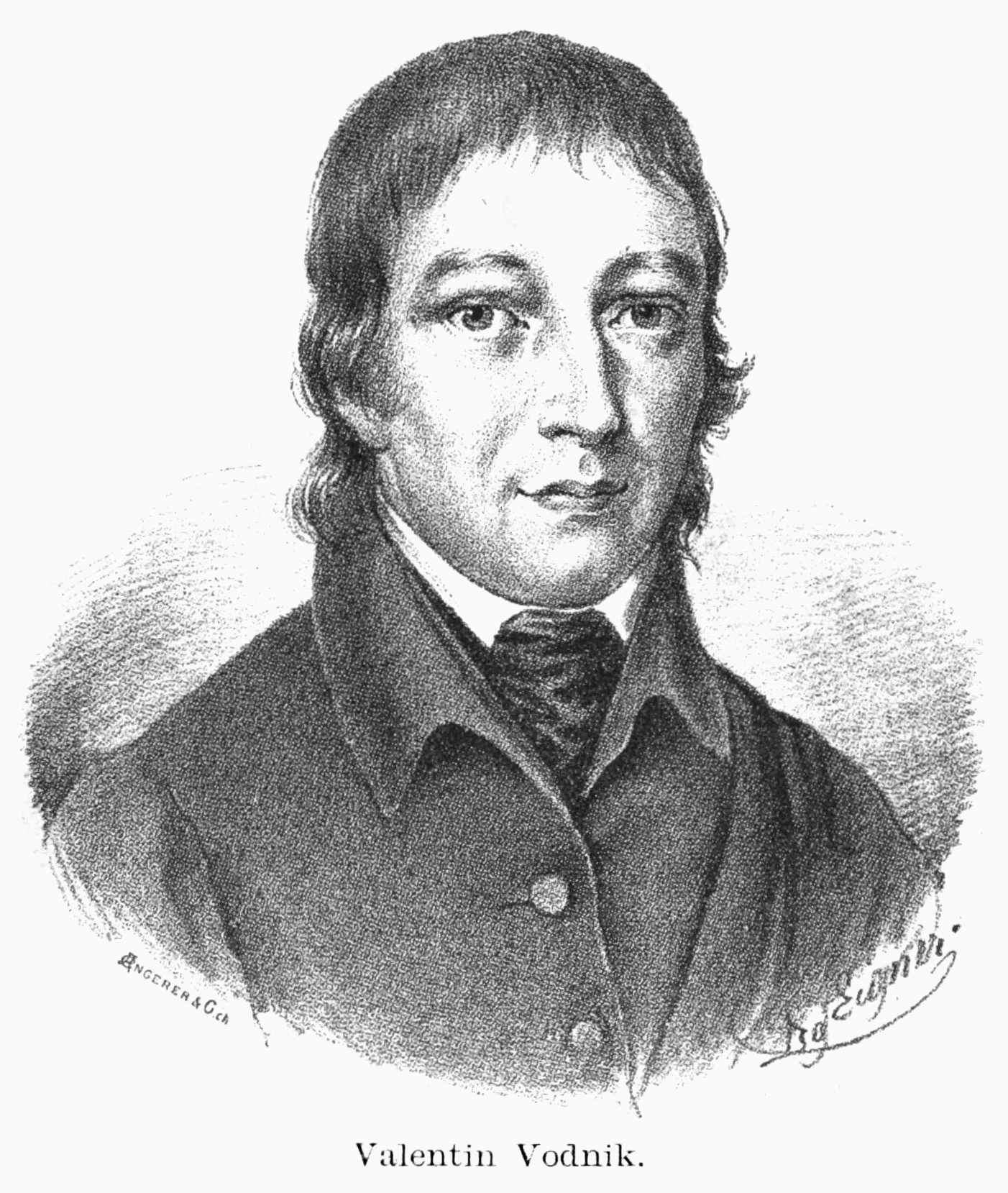 Valentin Vodnik